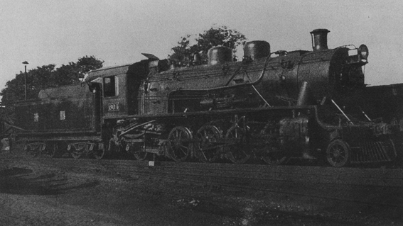 Locomotive number 600 of the Jiaoji Railway (later China Railways class JF17).